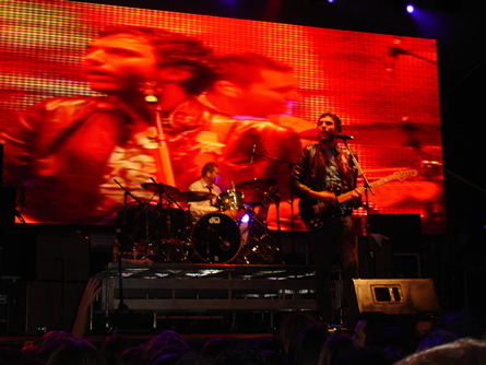 Motel en vivo en Evento Modelo Light Guadalajra